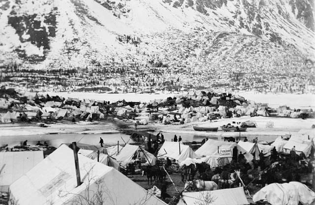 Miner's camp at the head of the Yukon River during the Klondike Gold Rush, from the Canadian National Archives. Date: 1st May 1898 Photographer: Woodside, H.J., 1858-1929.